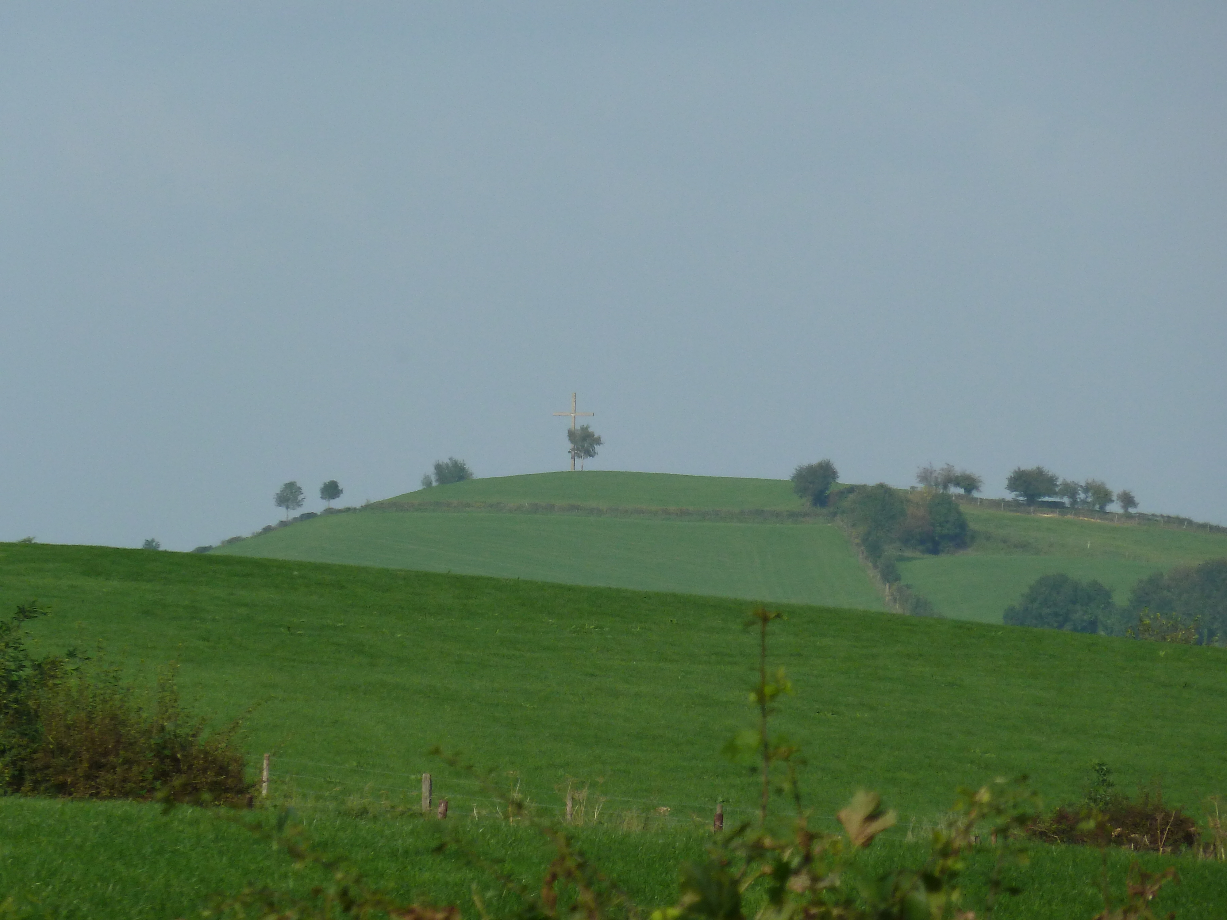 Schaesberg near Hombourg, Plombières, Belgium